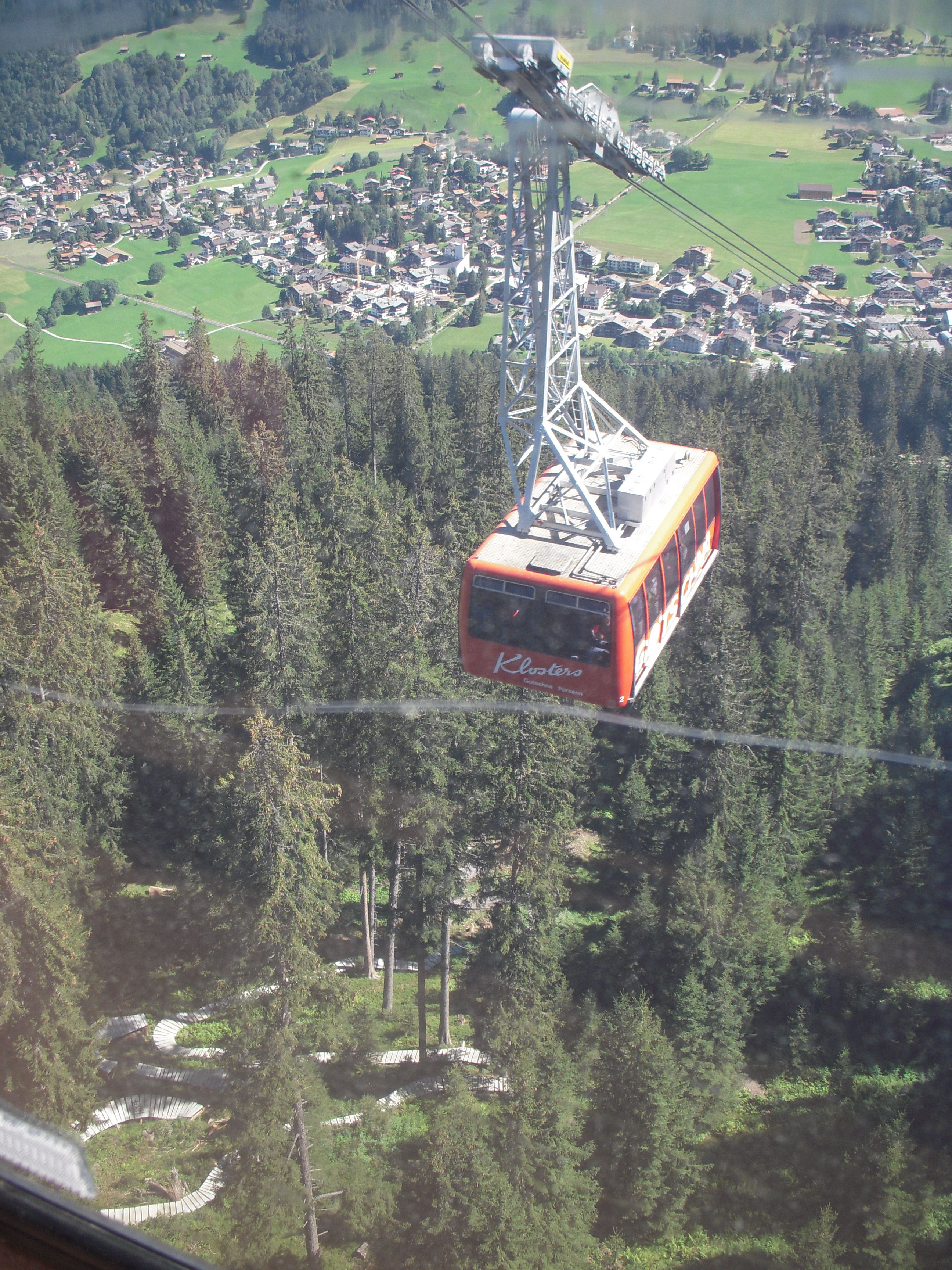 The cableway Gotschnabahn in Klosters, Graubünden, Switzerland. August 18, 2012.